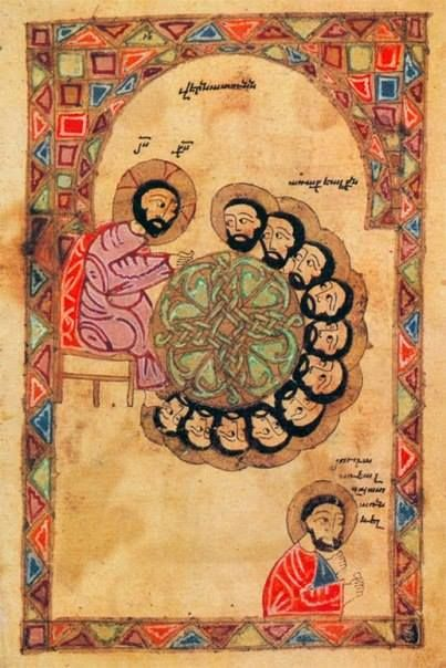 Last Supper, from Manuscript 313, end of the 14th century, Artsakh (Nagorno-Karabakh) Institution:Matenadaran